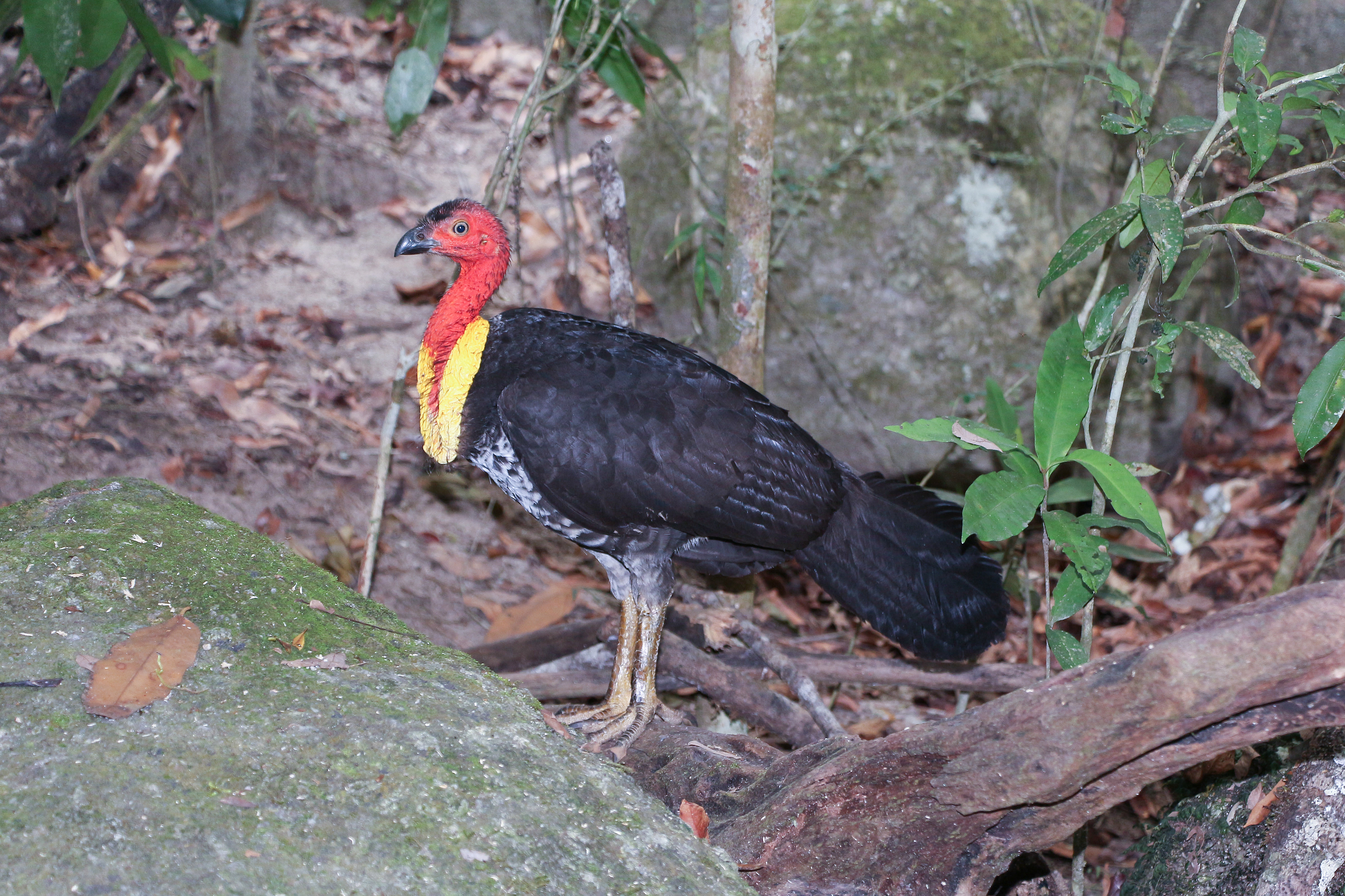 Australian brushturkey (Alectura lathami) in Mossman Gorge, Daintree National Park, Queensland, Australia